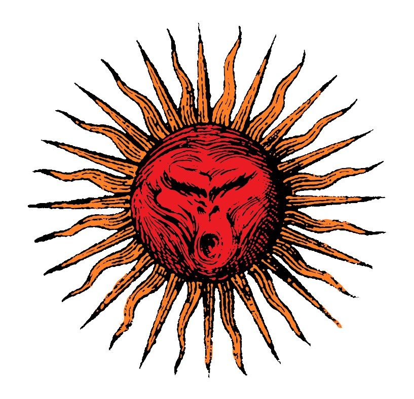 La Planète des Singes de Pierre Boulle.